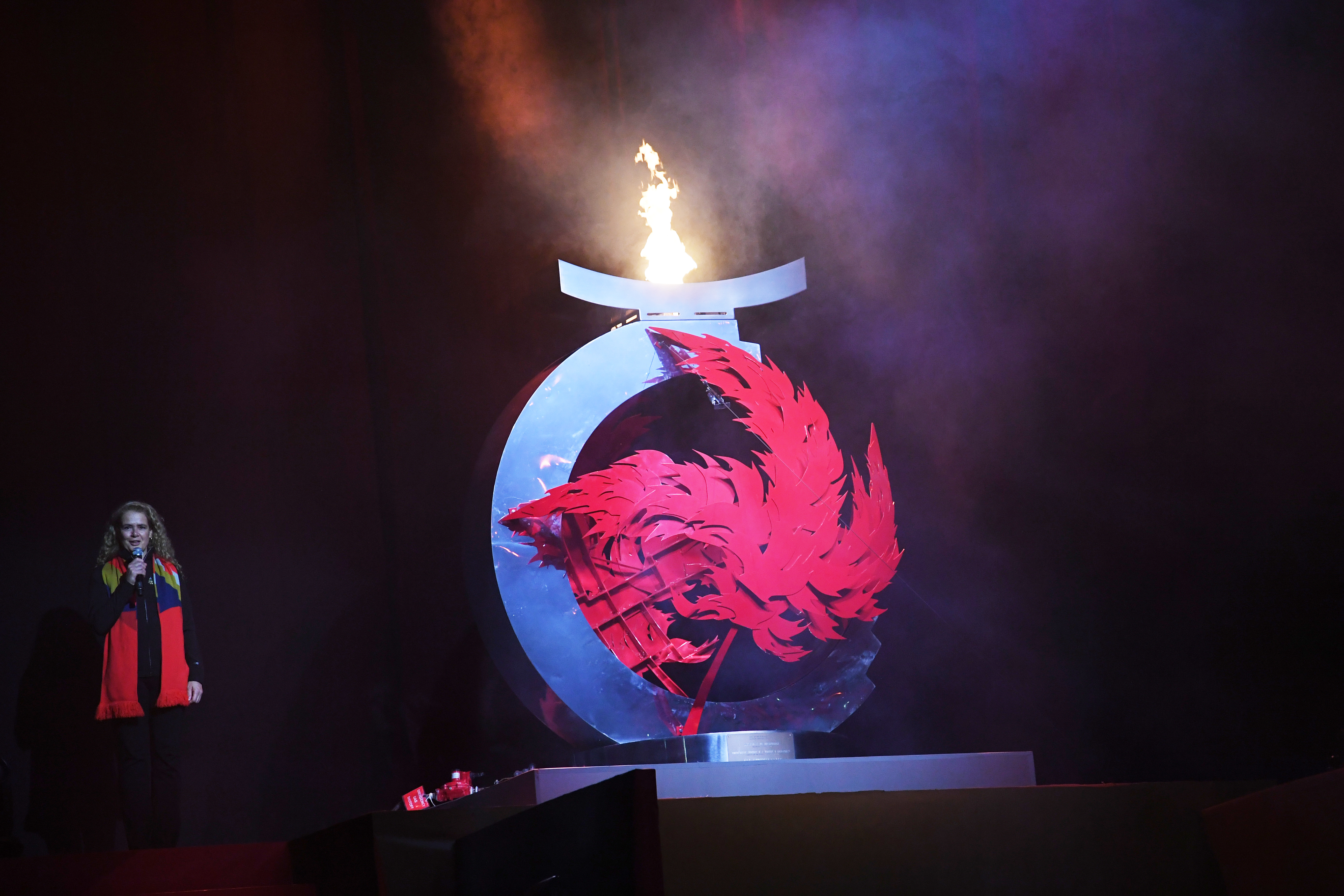 Her Excellency the Right Honourable Julie Payette, Governor General of Canada, officially opens the Canada Winter Games on February 15, 2019.